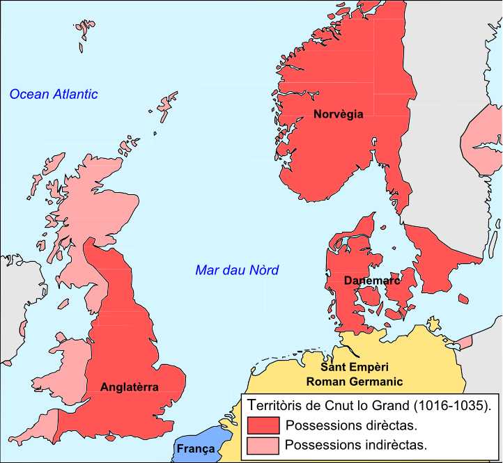 Territories of Cnut the Great (1016-1035) just before his death.